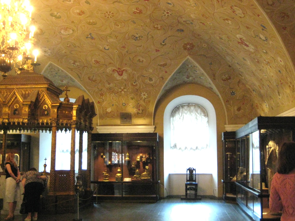 Патриаршее подворье.